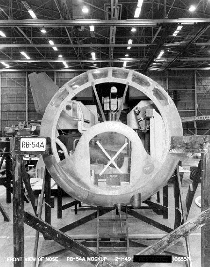 Mockup of the Boeing RB-54A reconnaissance bomber.